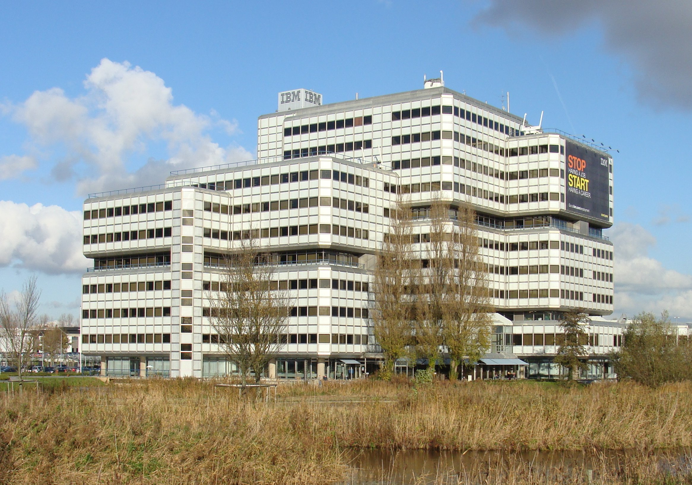 IBM offices in Amsterdam. 1976, Lucas & Niemeijer (W.Th. Ellerman) ([1])